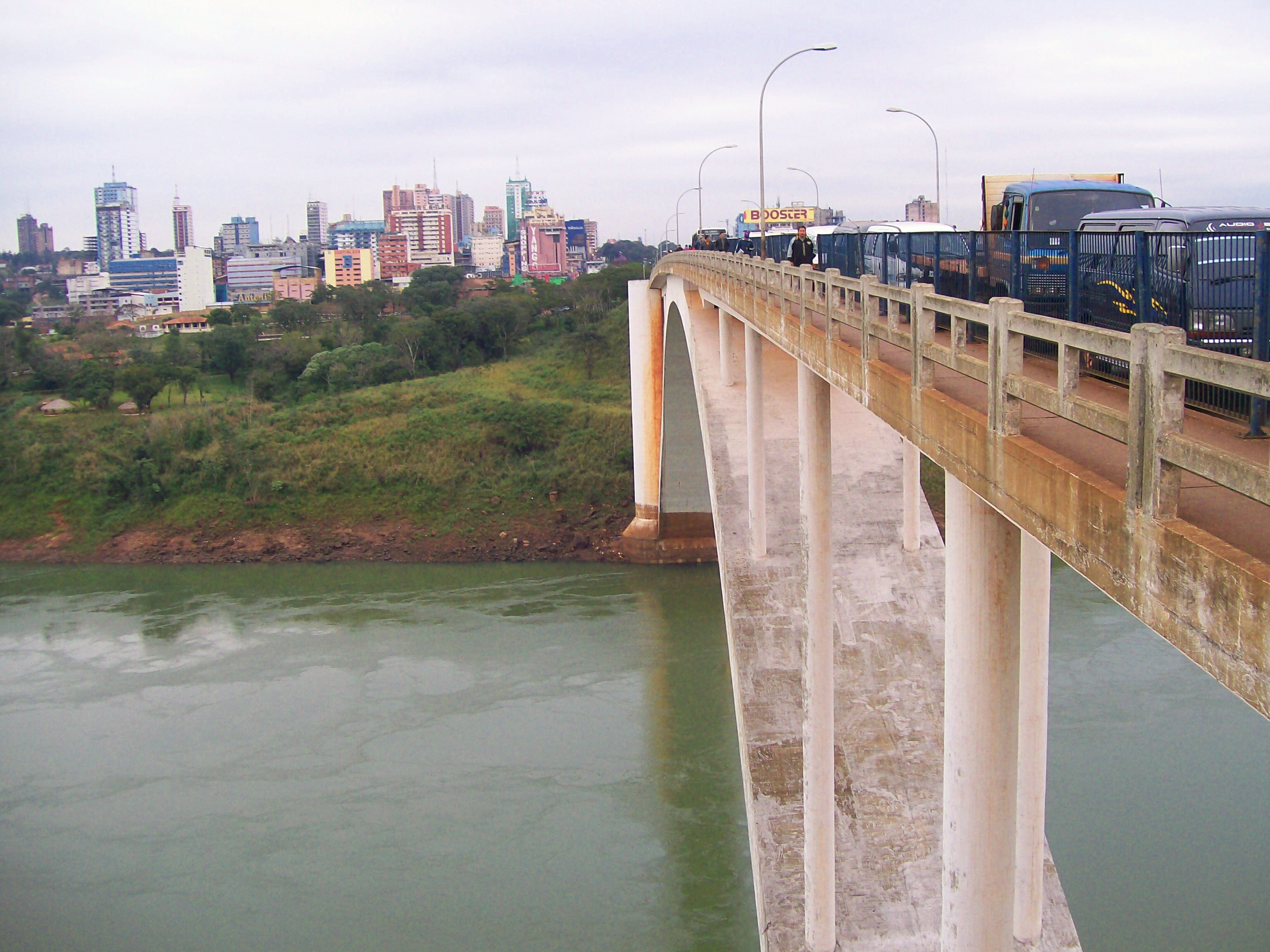 Image of the Friendship Bridge over the Rio Paraná, Ciudad del Este, Paraguay